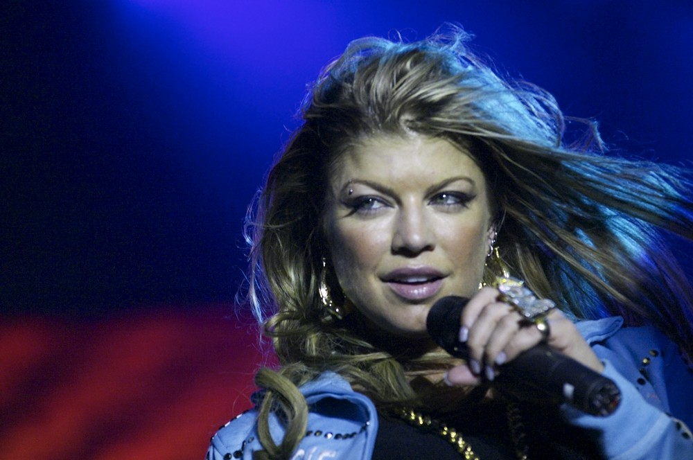 Fergie performing with the Black Eyed Peas in Anhembi, São Paulo, Brazil.